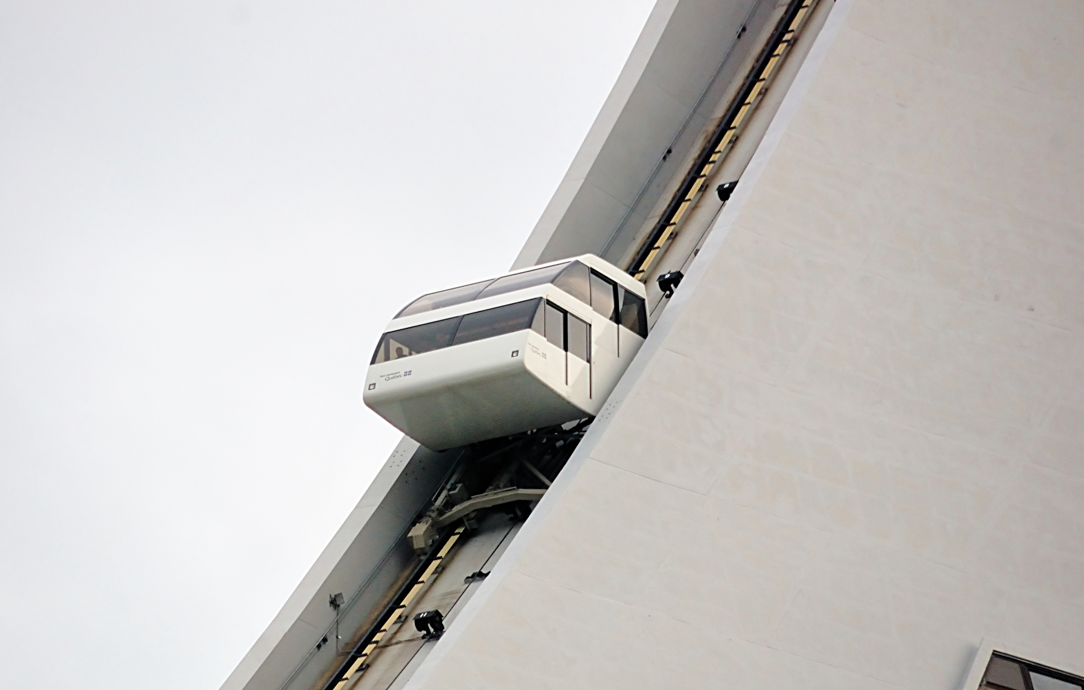 Olympic Stadium, Montreal